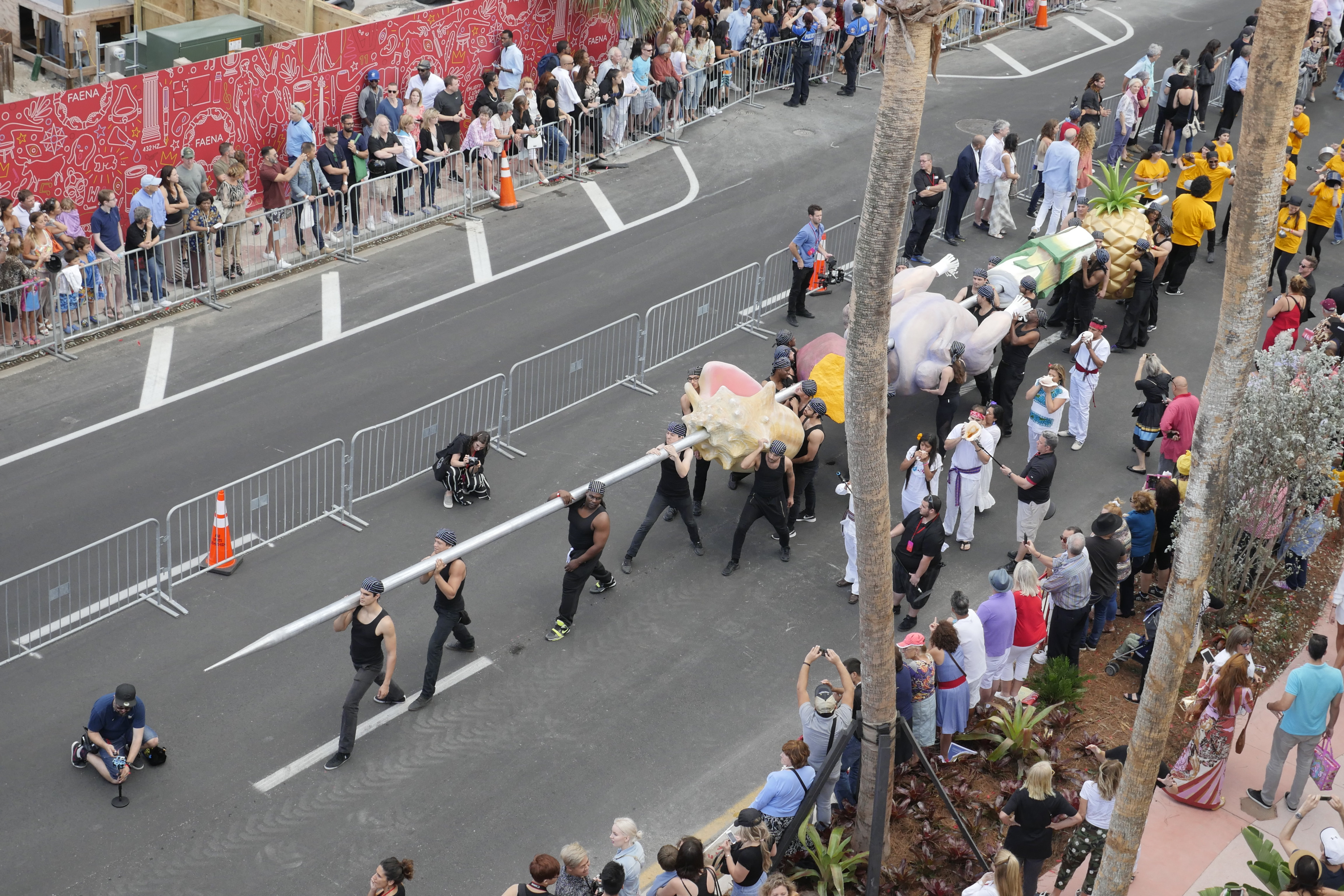 The Last Ingredients by Mirada as part of Tide by Side under the artistic direction of Claire Tancons, opening processional performance, Faena District Miami Beach, November 27, 2016